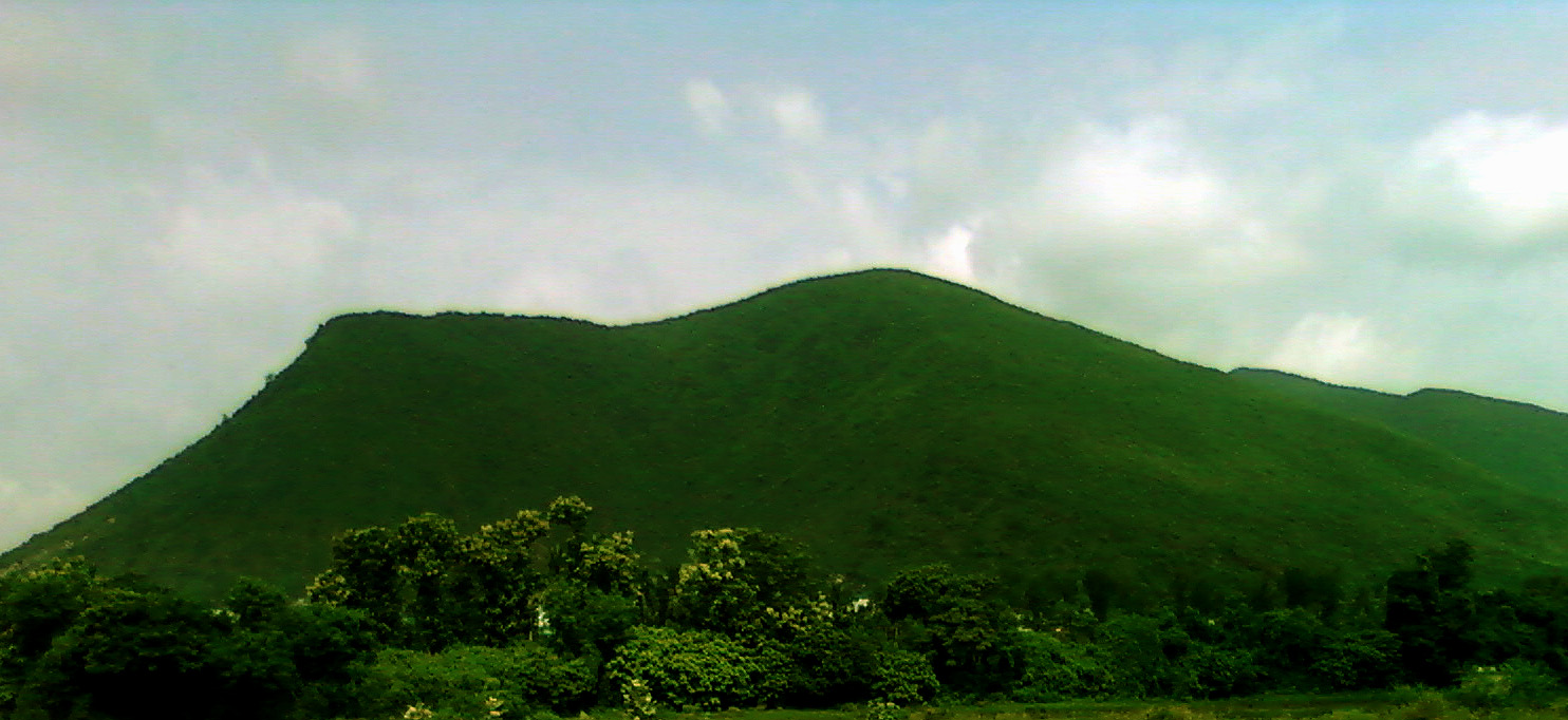 Hills at Nellimarla in Vizianagaram district, Andhra Pradesh